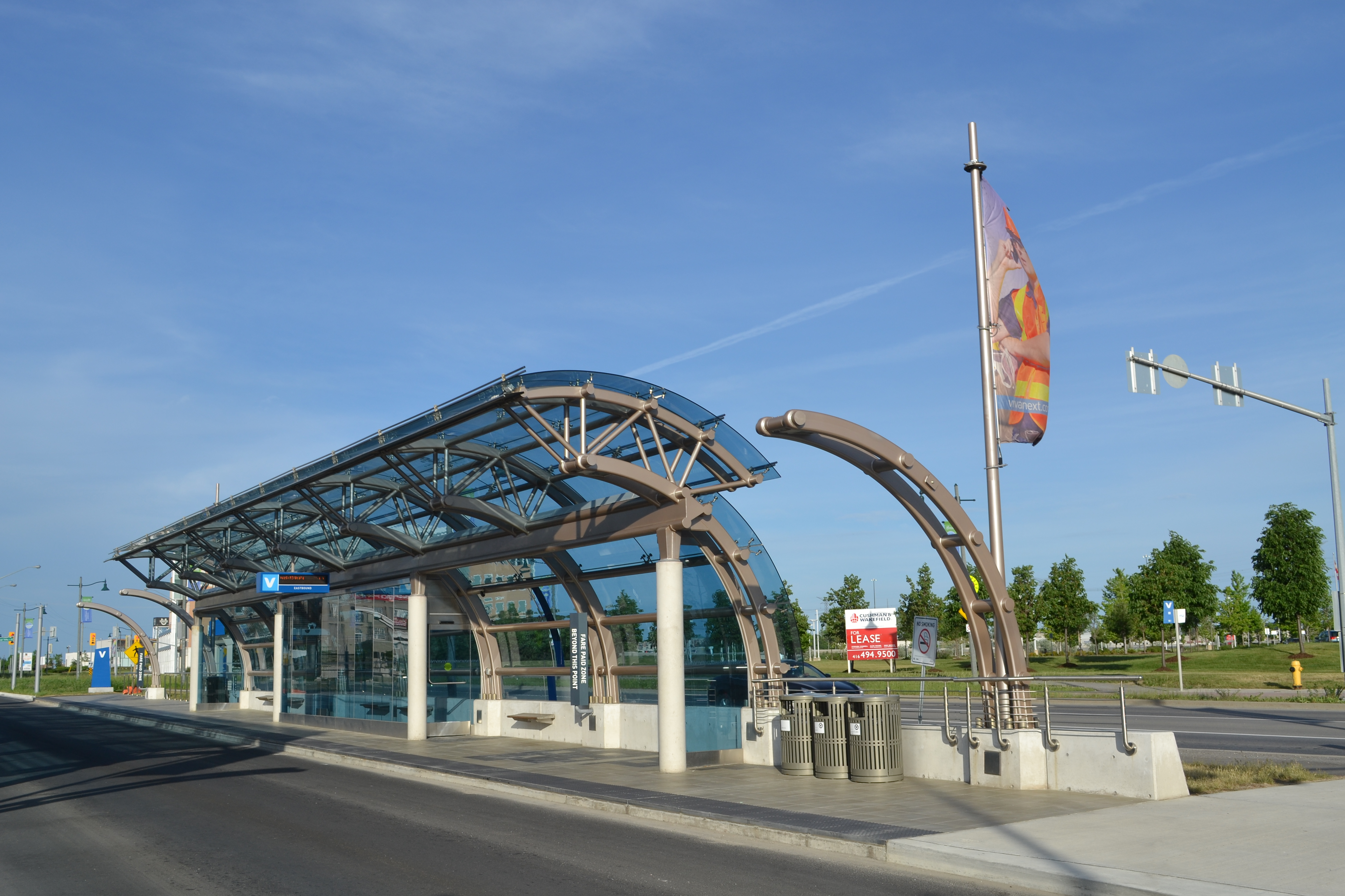 Warden VIVA Terminal